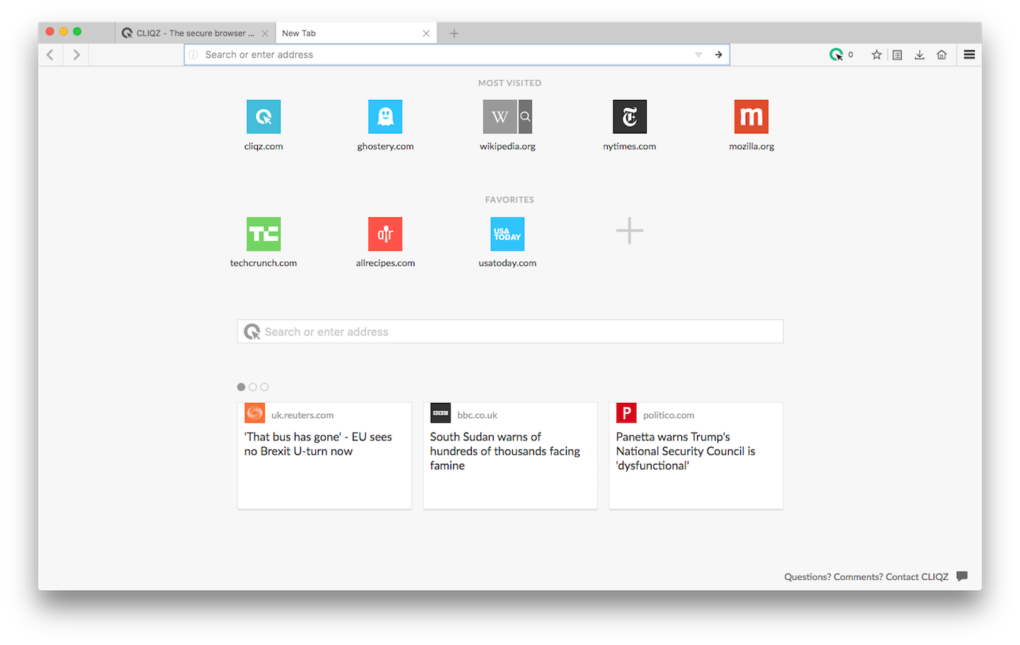 Start page of the Cliqz browser with most visited sites, favorites and news.